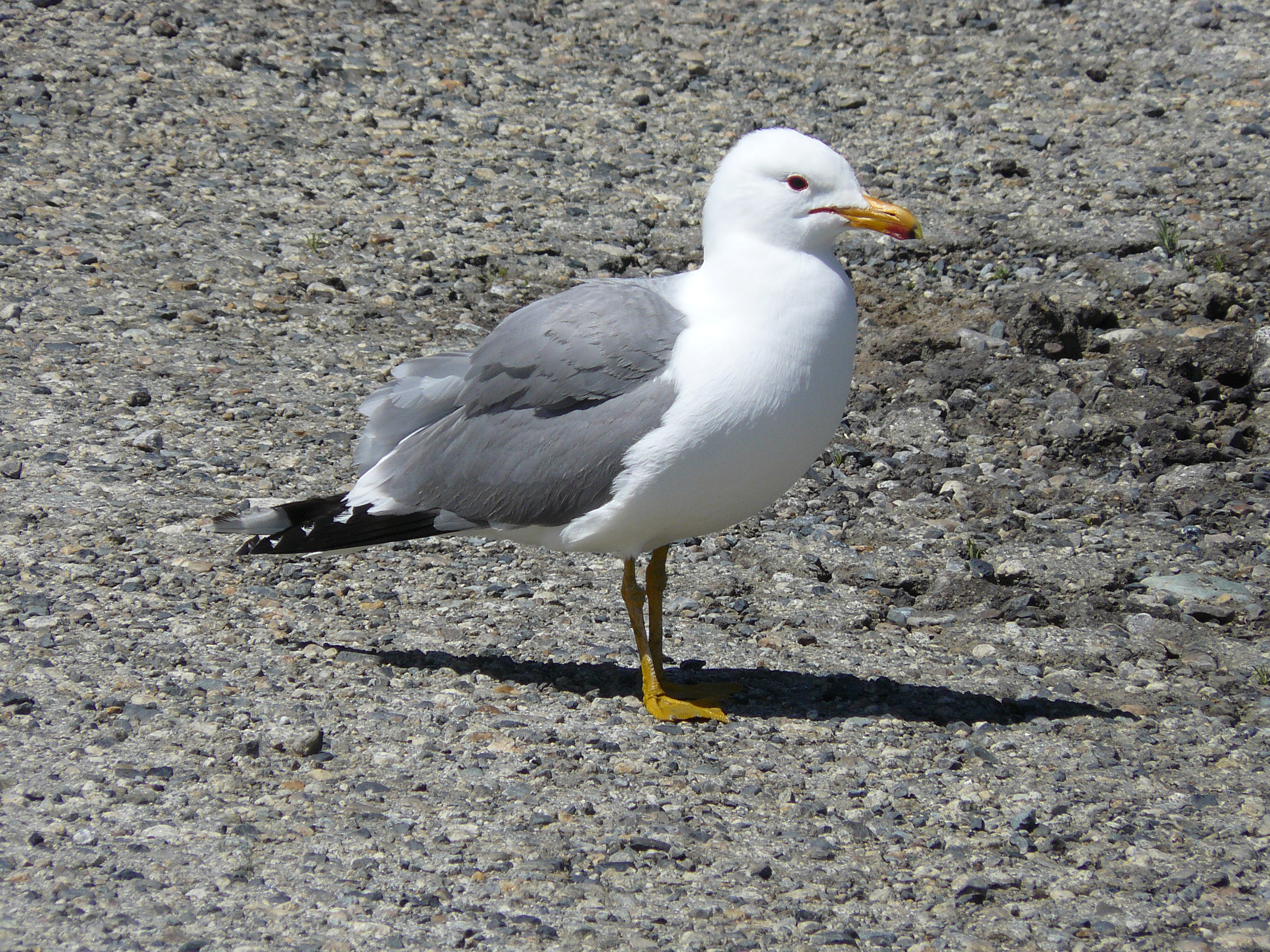 California Gull, adult summer. Mono Lake, Lee Vining, California.